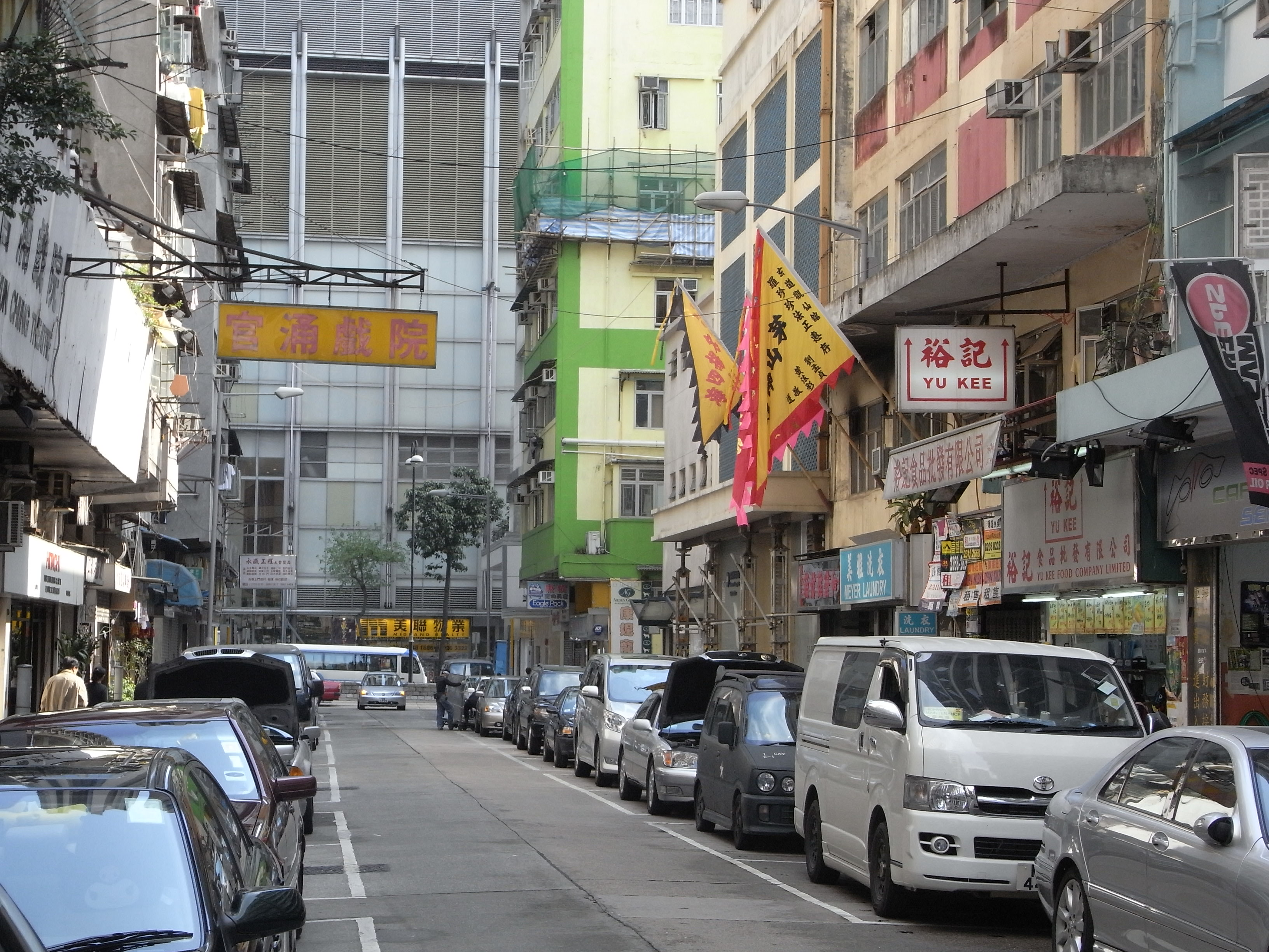 佐敦 官涌街 官涌戲院